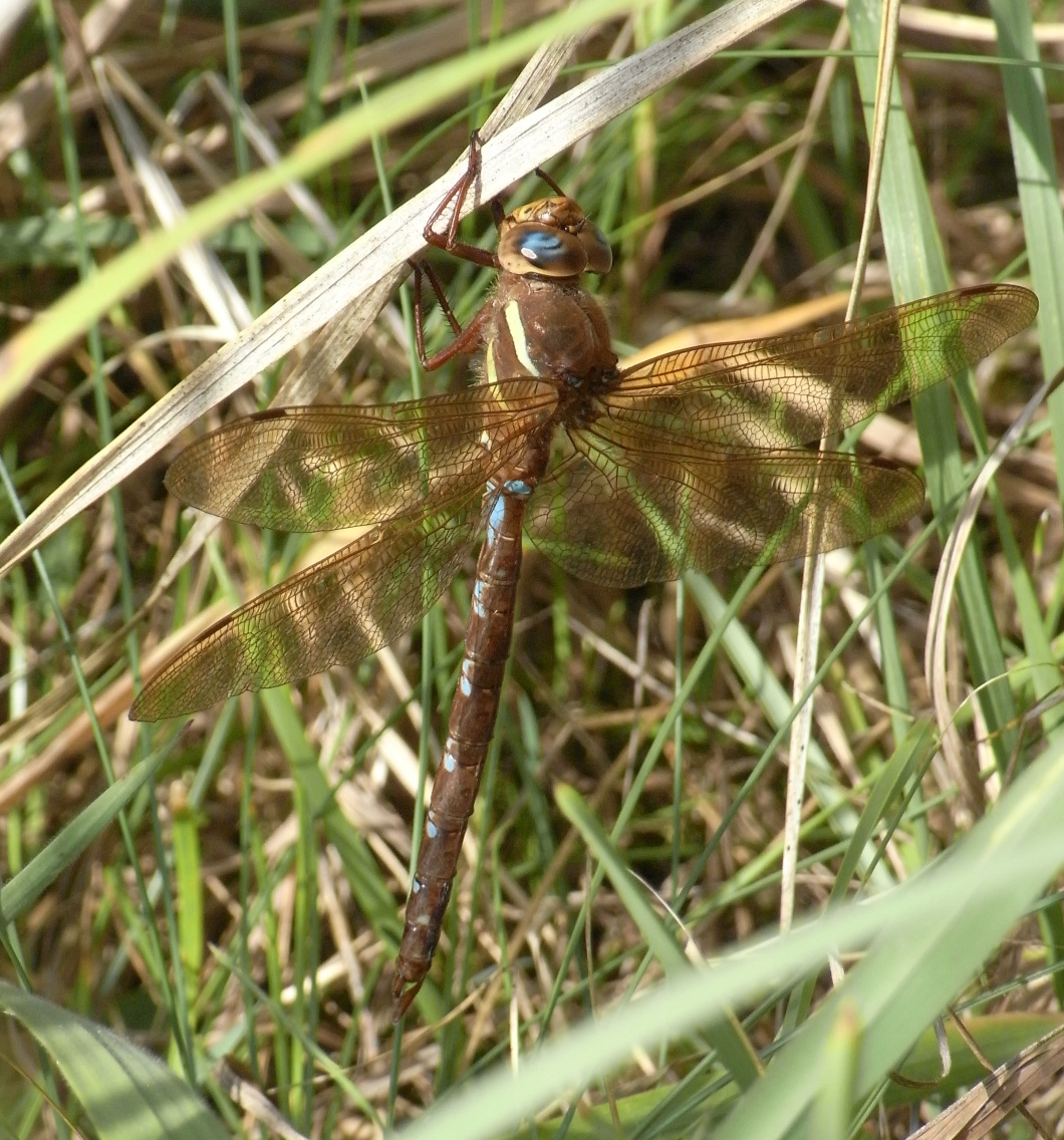 Male Brown Hawker (Aeshna grandis) near Hamburg, Germany.